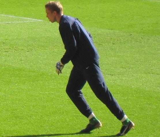 Mart Poom